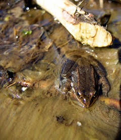 Cascades frog and beaver-chewed stick on Gurnsey Creek, tributary of Deer Creek, Tehama County, California.